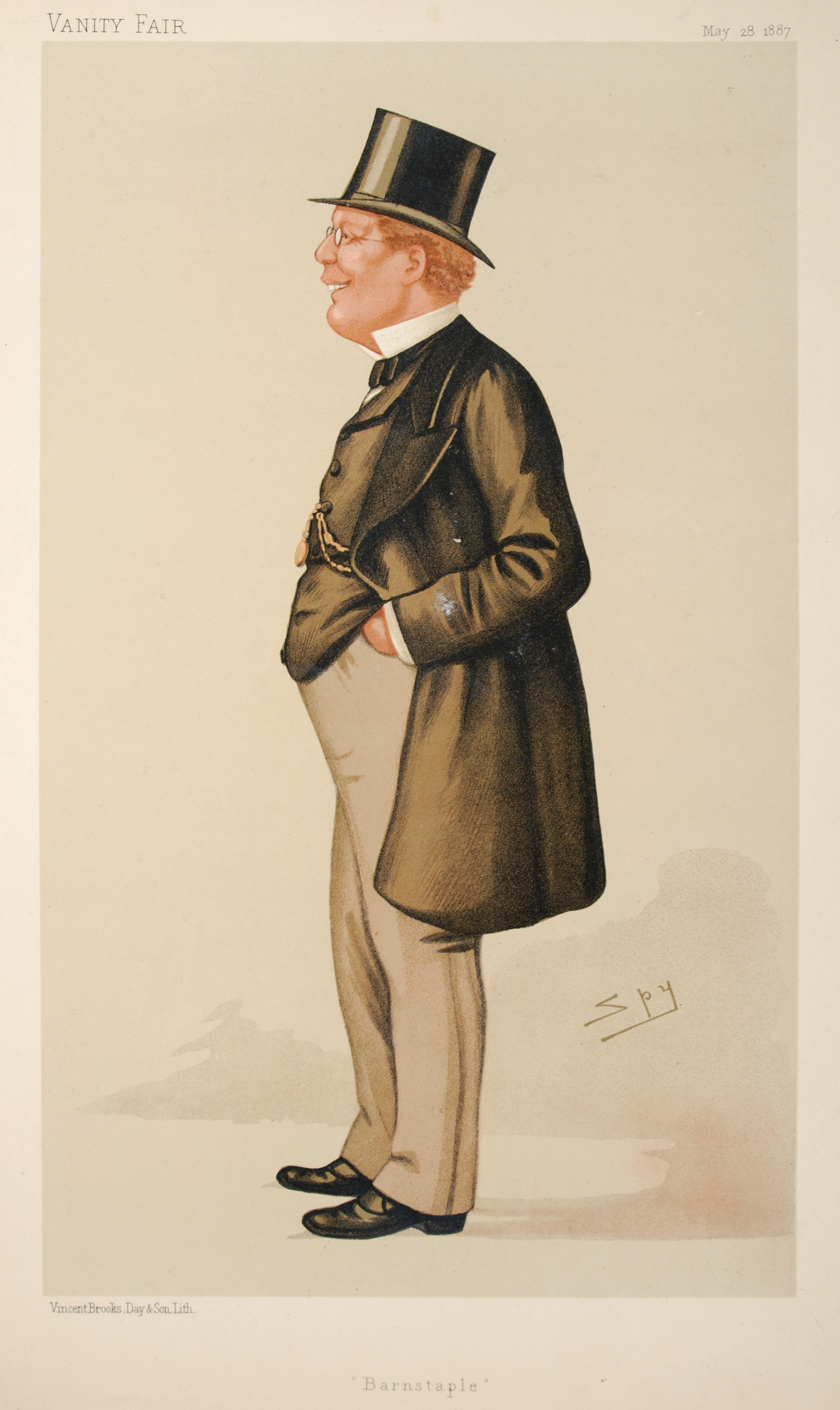 Statesmen No.522: Caricature of Mr George Pitt-Lewis QC MP. Caption reads: "Barnstaple"